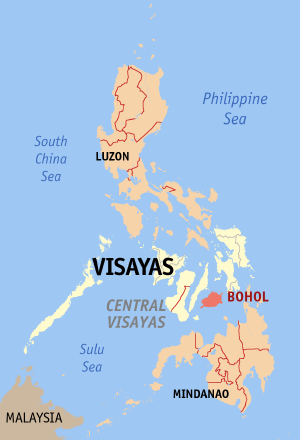 Map of the Philippines showing the location of Bohol